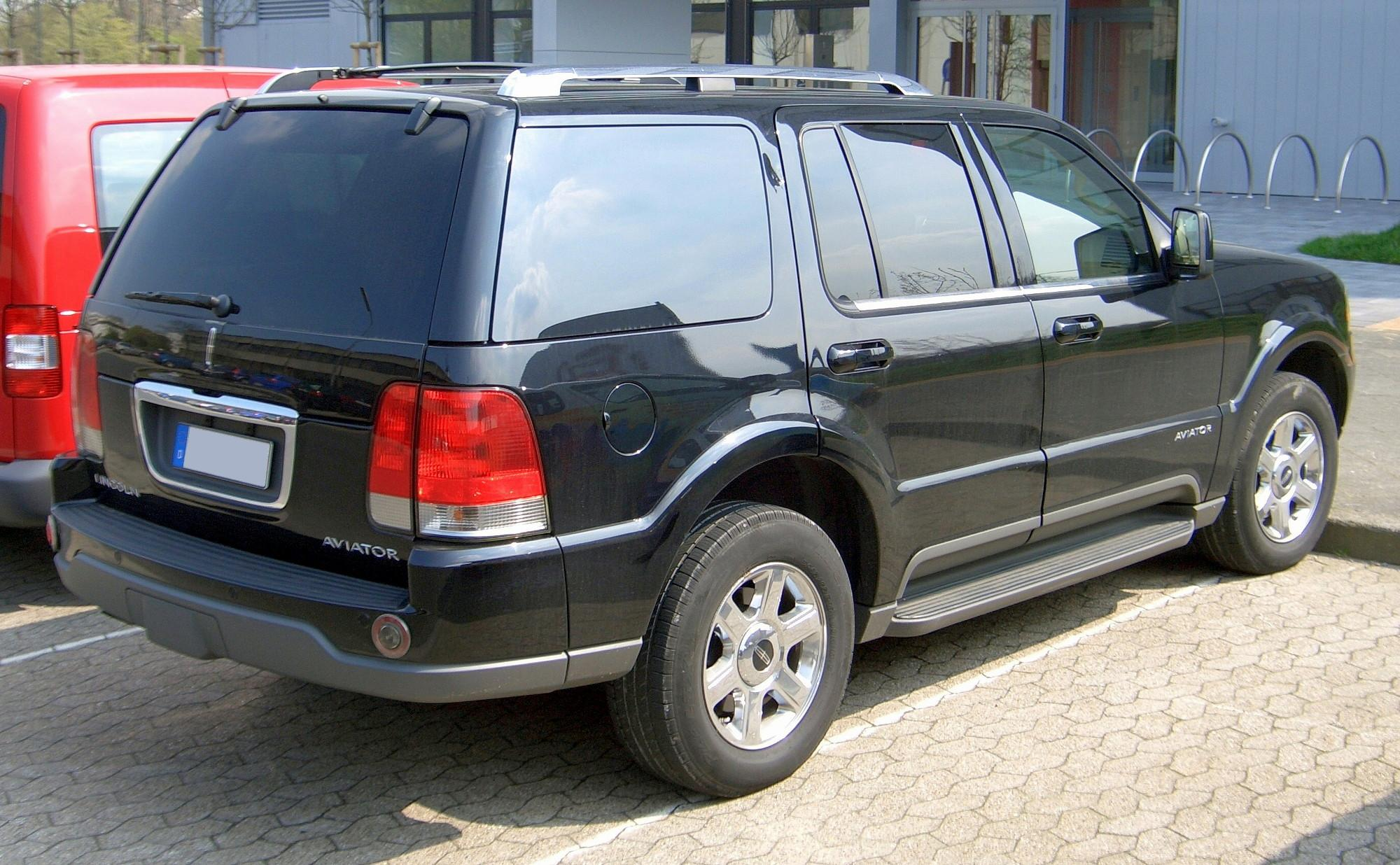 Lincoln Aviator, 2002-2005, seen in Düsseldorf, Germany